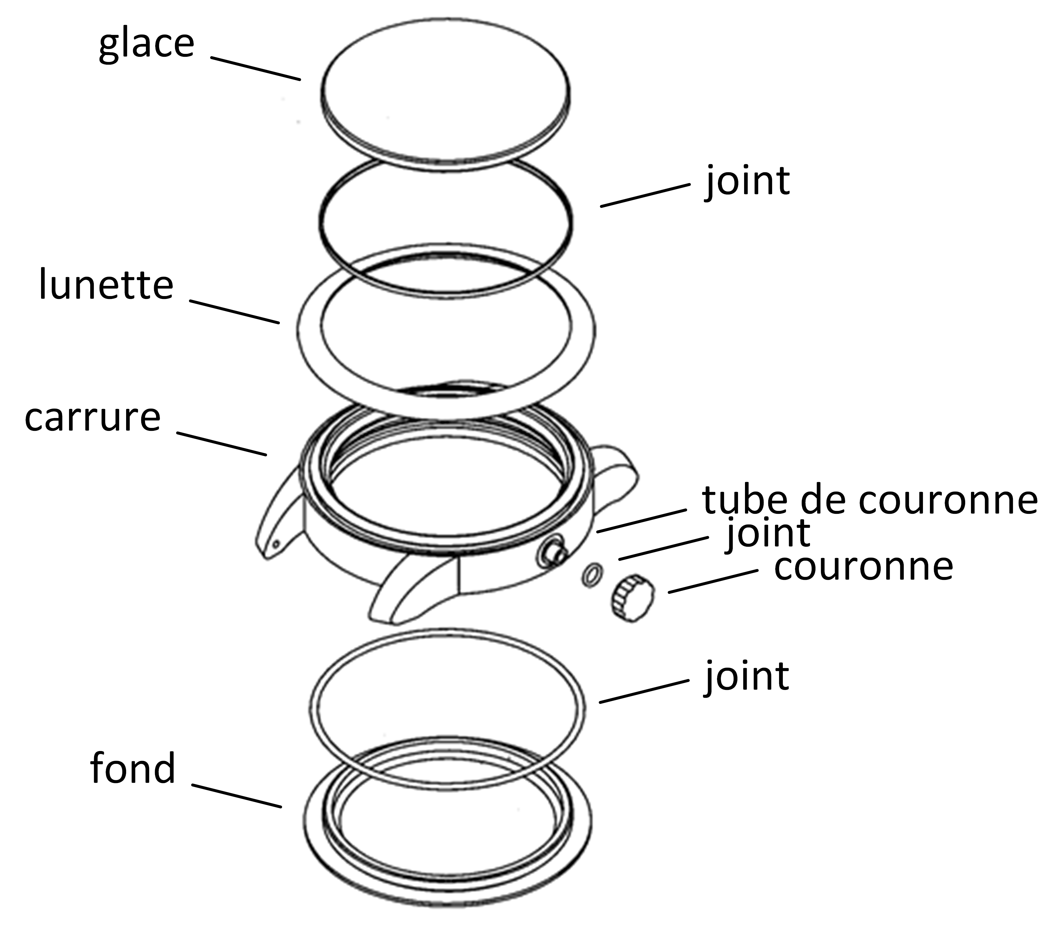 Illustrated lexicon of pieces of a watch case.